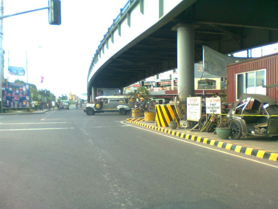 The Malolos Flyover built in just 60 days in 2004